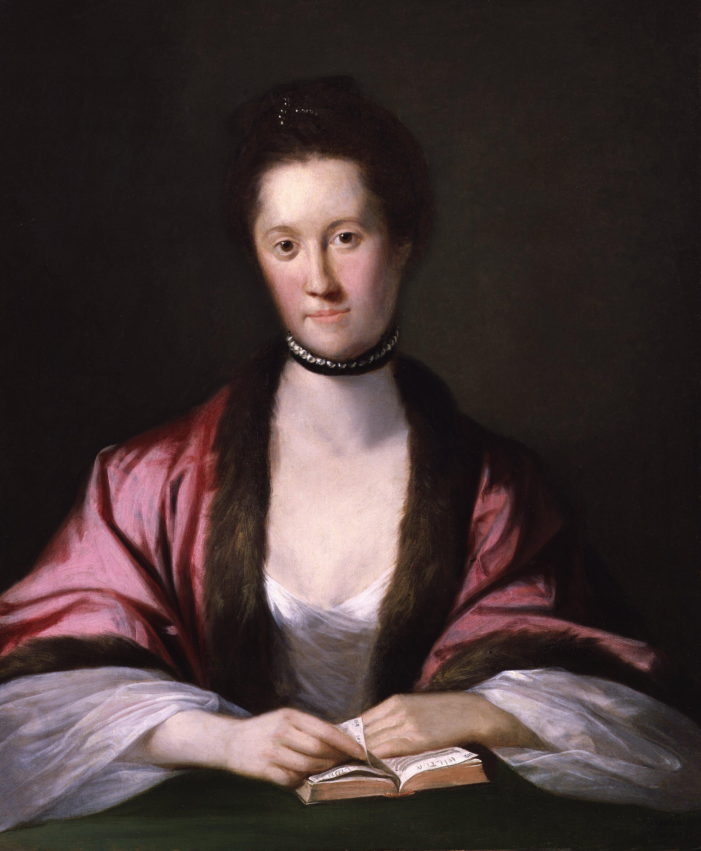 Anna Seward, by Tilly Kettle (died 1786). All images in this batch have been confirmed as author died before 1939 according to the official death date listed by the NPG.